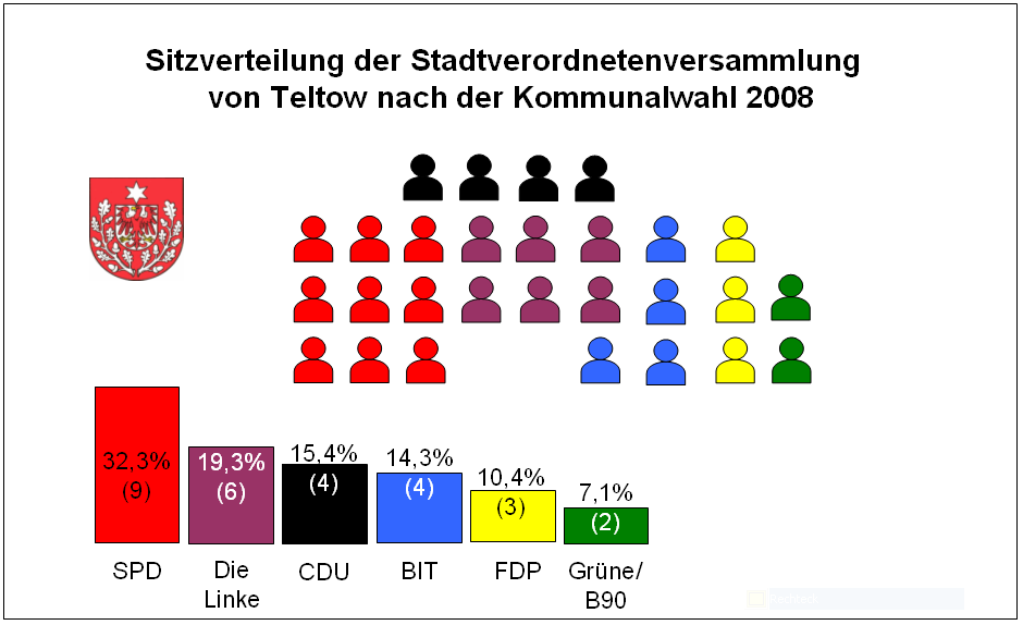 local elections Teltow Germany 2008